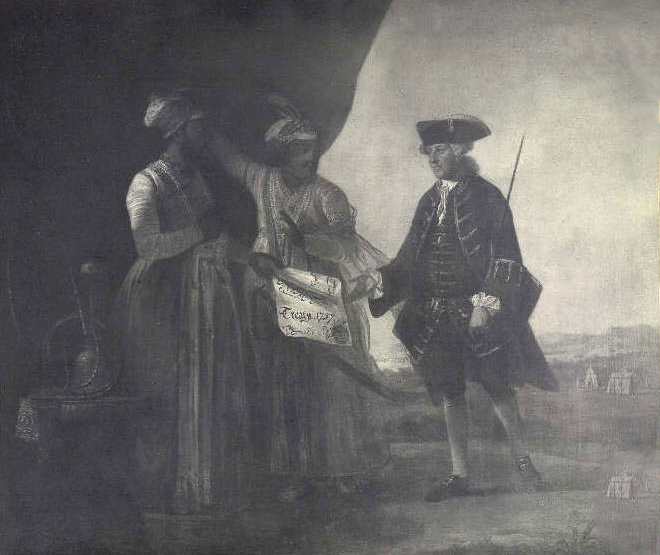 Mir Jafar and his son Miran delivering the Treaty of 1757 to William Watts. Platinotype by Henry Dixon and Son, London, c.1890.